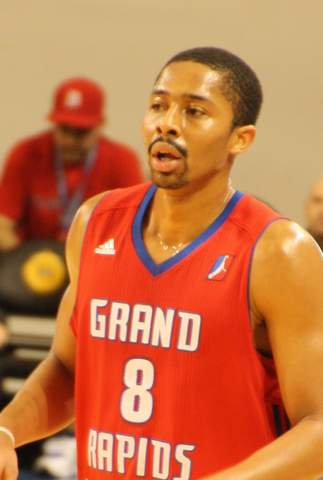 Spencer Dinwiddie with Grand Rapids Drive